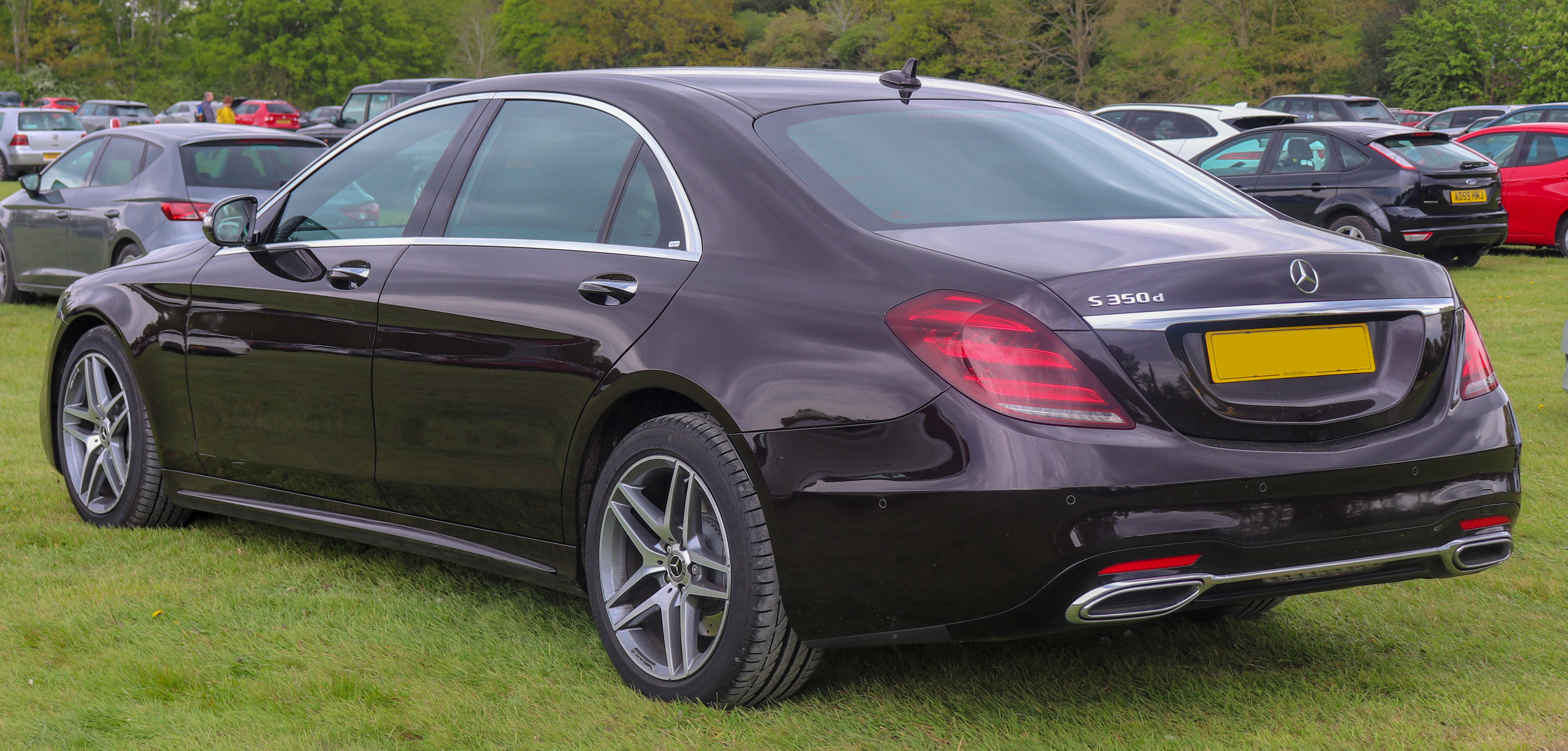 2019 Mercedes-Benz S350d L AMG Line Executive 3.0 Rear Taken in NAEC Stoneleigh, Warwickshire